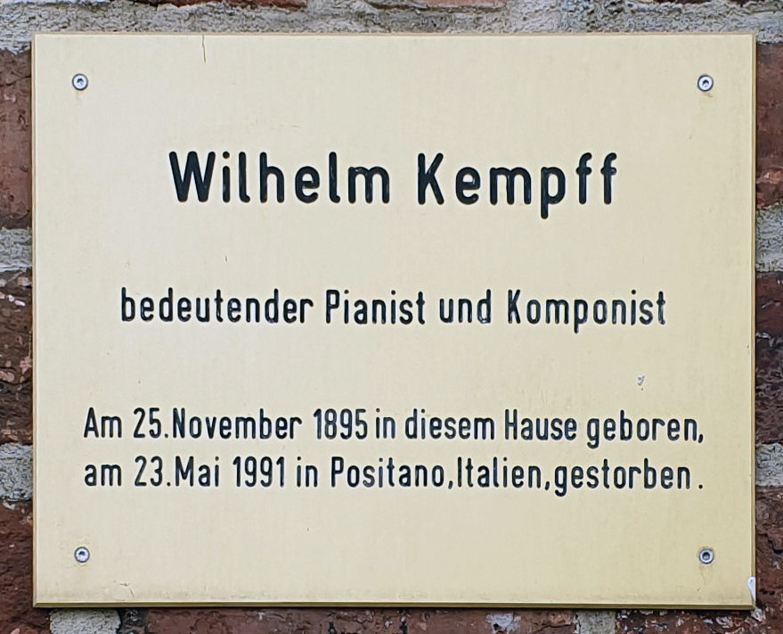 Memorial plaque, Wilhelm Kempff, Mönchenkirchplatz, Jüterbog, Deutschland